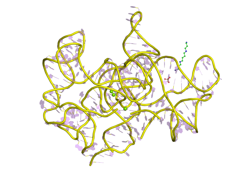 Cartoon representation of the molecular structure of protein registered with 1y0q code.